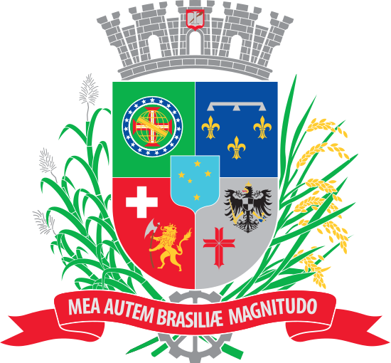 Coat of arms of city of Joinville, Santa Catarina, Brazil